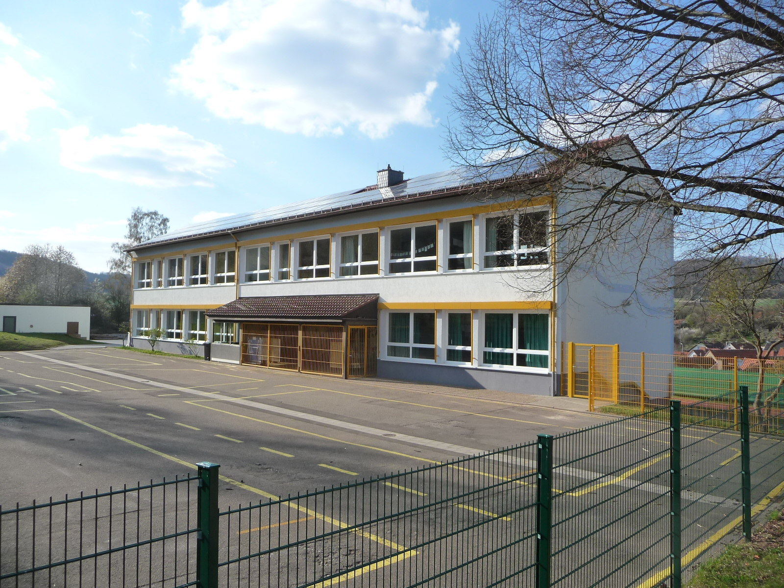 Ramsen (Pfalz)